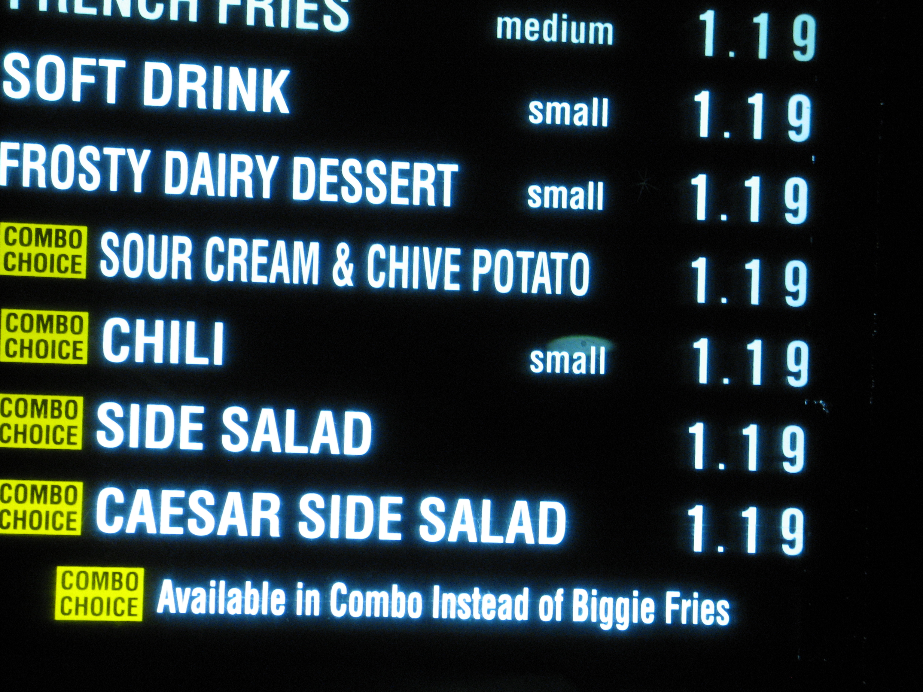 Photographed by en.wikinews contributor David Vasquez, at 1405 Monterey Road in San Jose, California, using a Canon PowerShot G6. Used for the story Woman finds human finger in bowl of chili at Wendy's restaurant. Shot showing that chili is still on the menu, shortly after closing time.